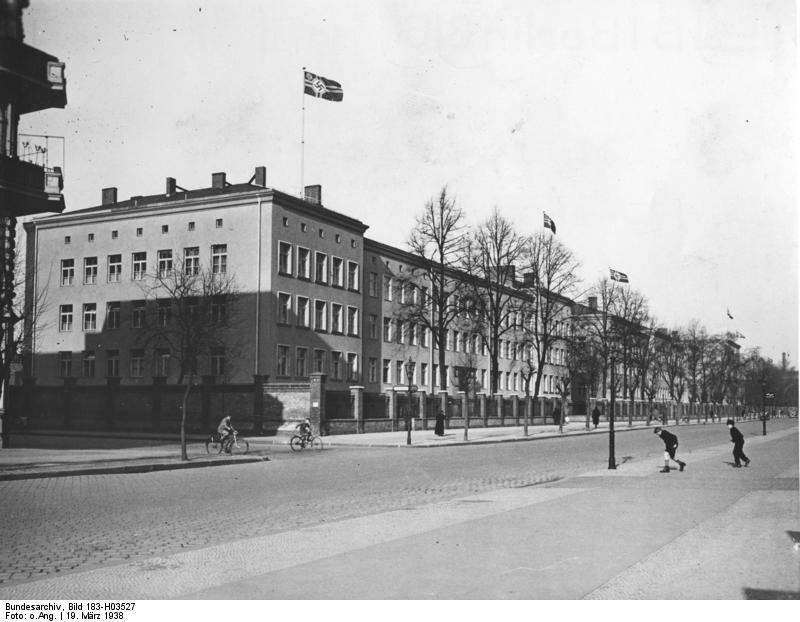 Buildins of the War academy (former Prussian war academy) in Berlin (Moabit) sreet Krupstrasse, few 1938.